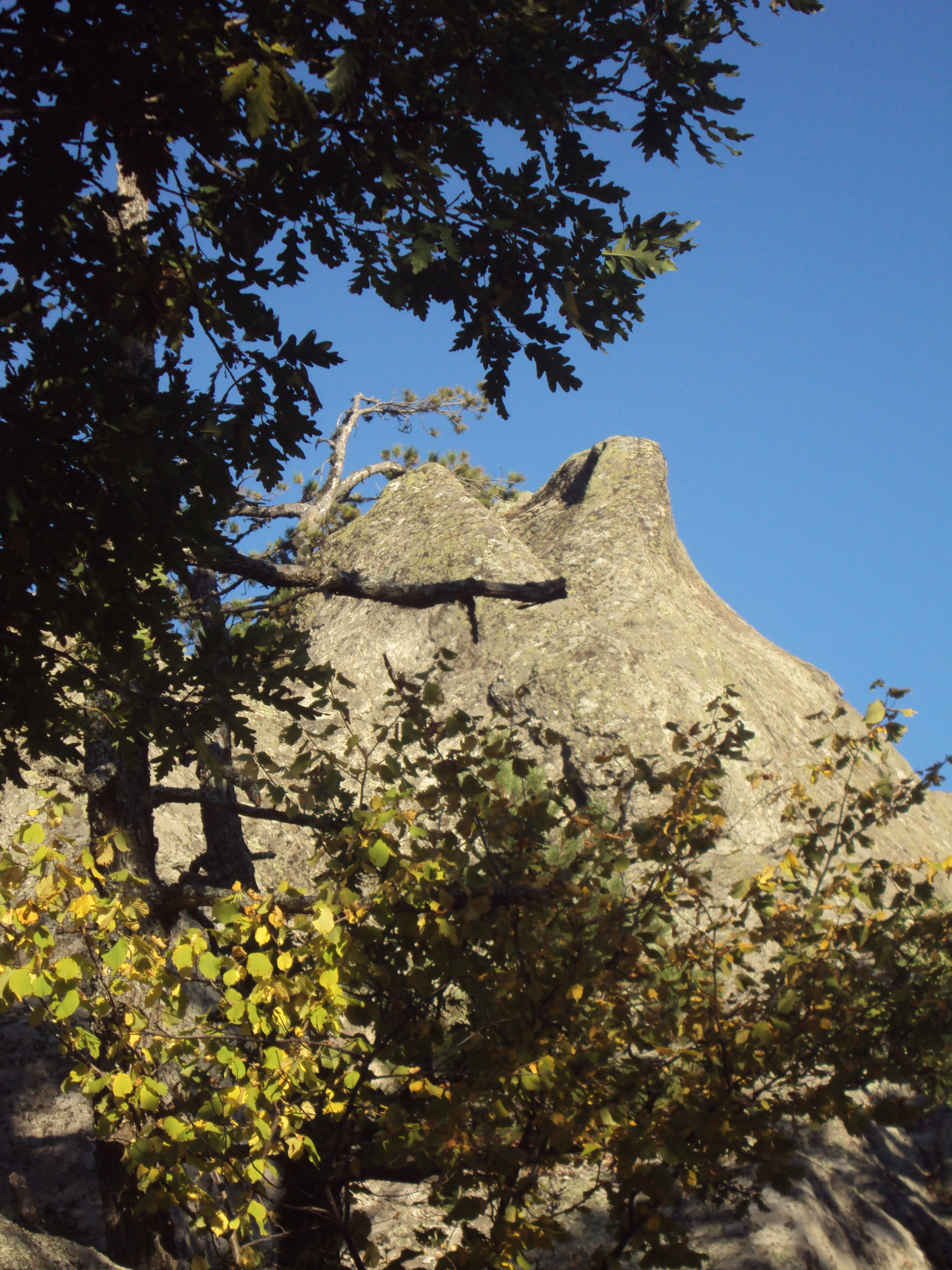 Sara kaya